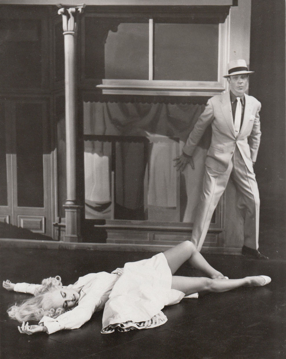 Still from MGM musical "The Band Wagon" (1953), scene from "Girl Hunt Ballet." No copyright notice on either side of photo